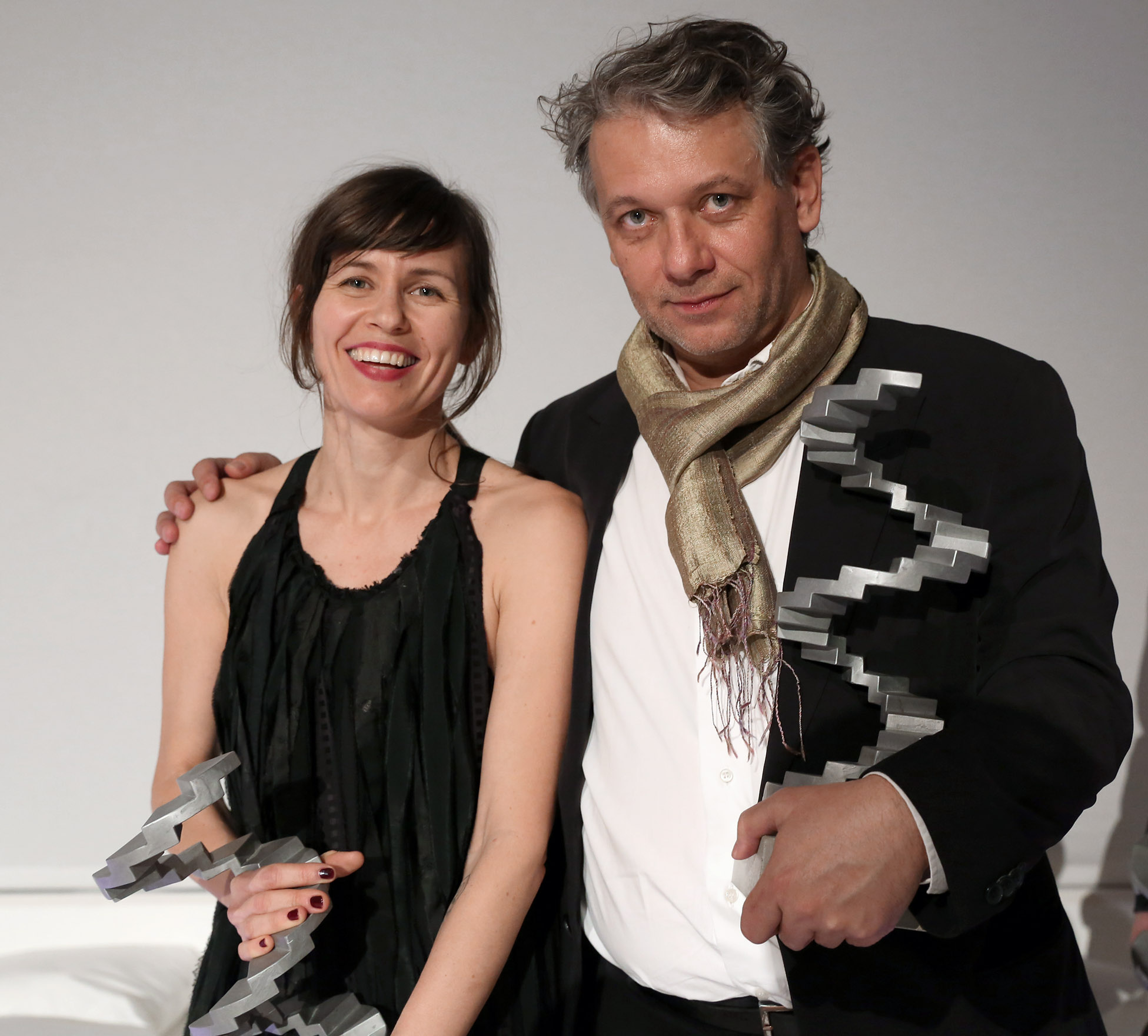 Julia Cepp and Jerzy Palacz (best costume design respectively best cinematography, both for "Shirley – Visions of Reality"), Austrian Film Awards 2014 (Grafenegg, Austria).